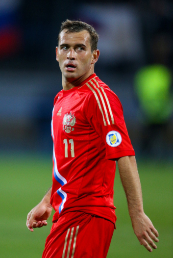 Aleksandr Kerzhakov